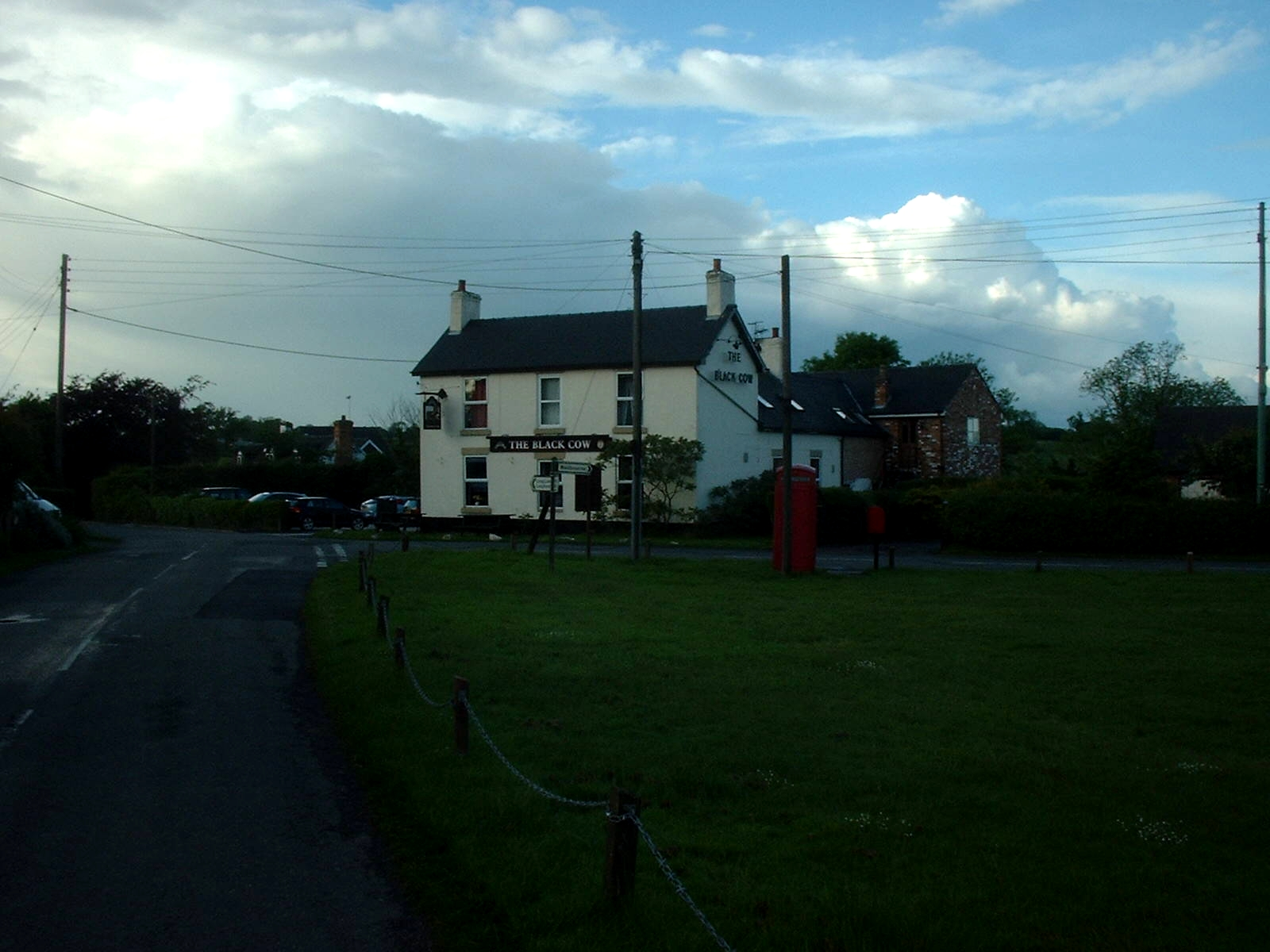 The Black Cow Lees in South Derbyshire UK